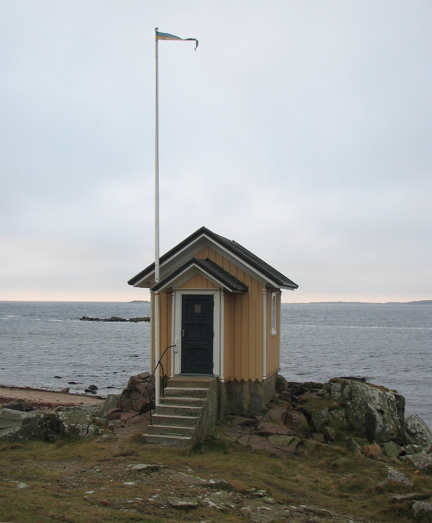 Coast of Torekov, Sweden